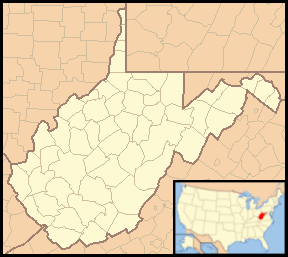 Locator Map of West Virginia, United States